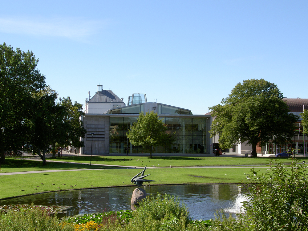 Almedalsbiblioteket i Visby.